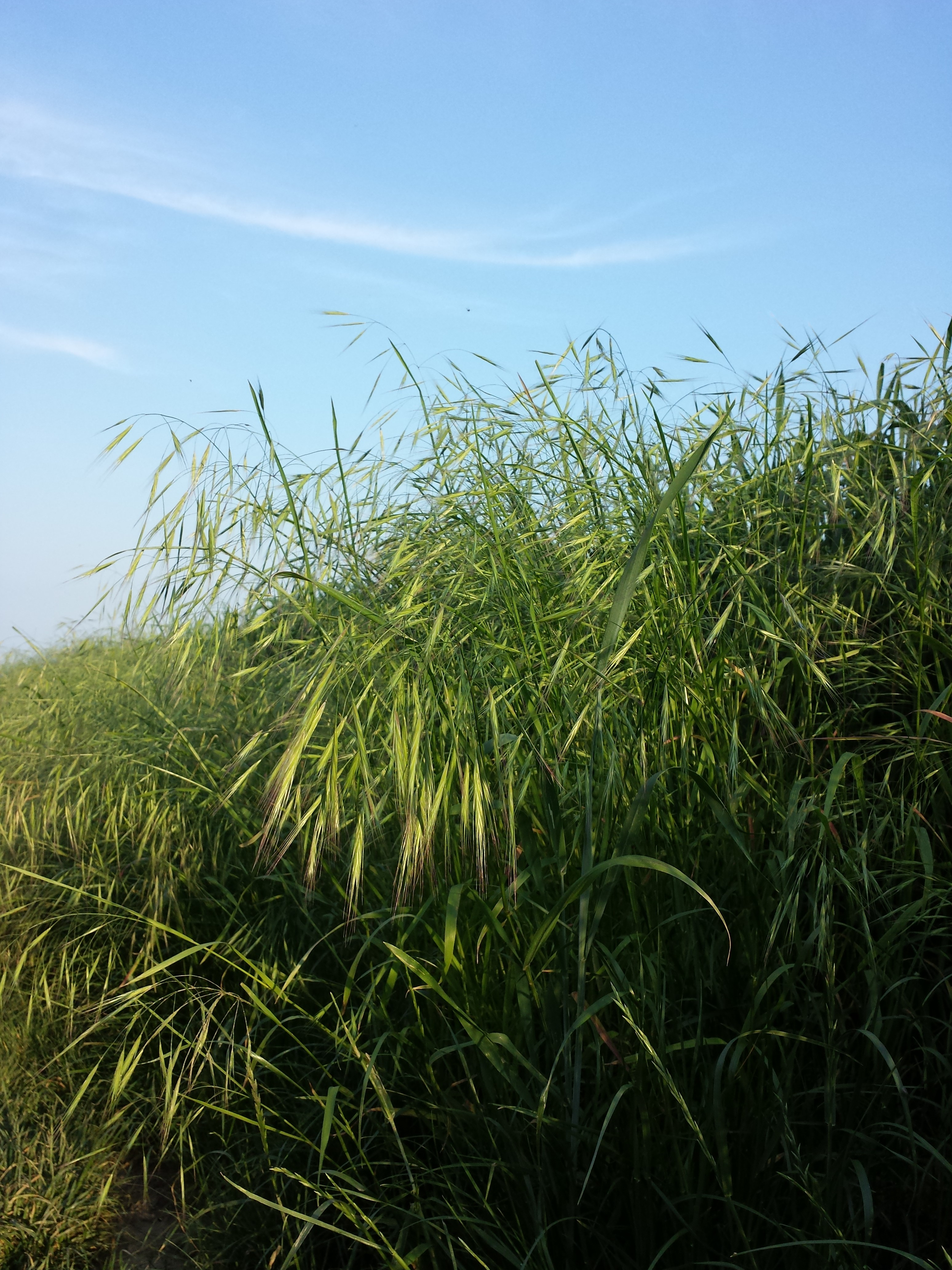 Habitus Taxonym: Bromus sterilis ss Fischer et al. EfÖLS 2008 ISBN 978-3-85474-187-9 Location: Steinberg near Niederhollabrunn, district Korneuburg, Lower Austria - ca. 350 m a.s.l. Habitat: border of a field